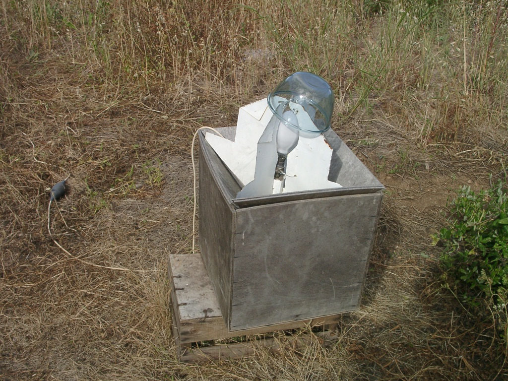 Moth traps are lit at night to attract the insects, which then get stuck in the box's creases. Entomologists use moth traps to assess insect population or to capture them for insect collections. Cruzinha, Portimão, Portugal.